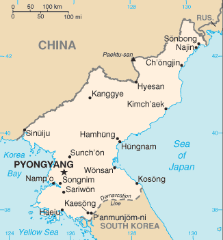 Map of North Korea showing major cities.